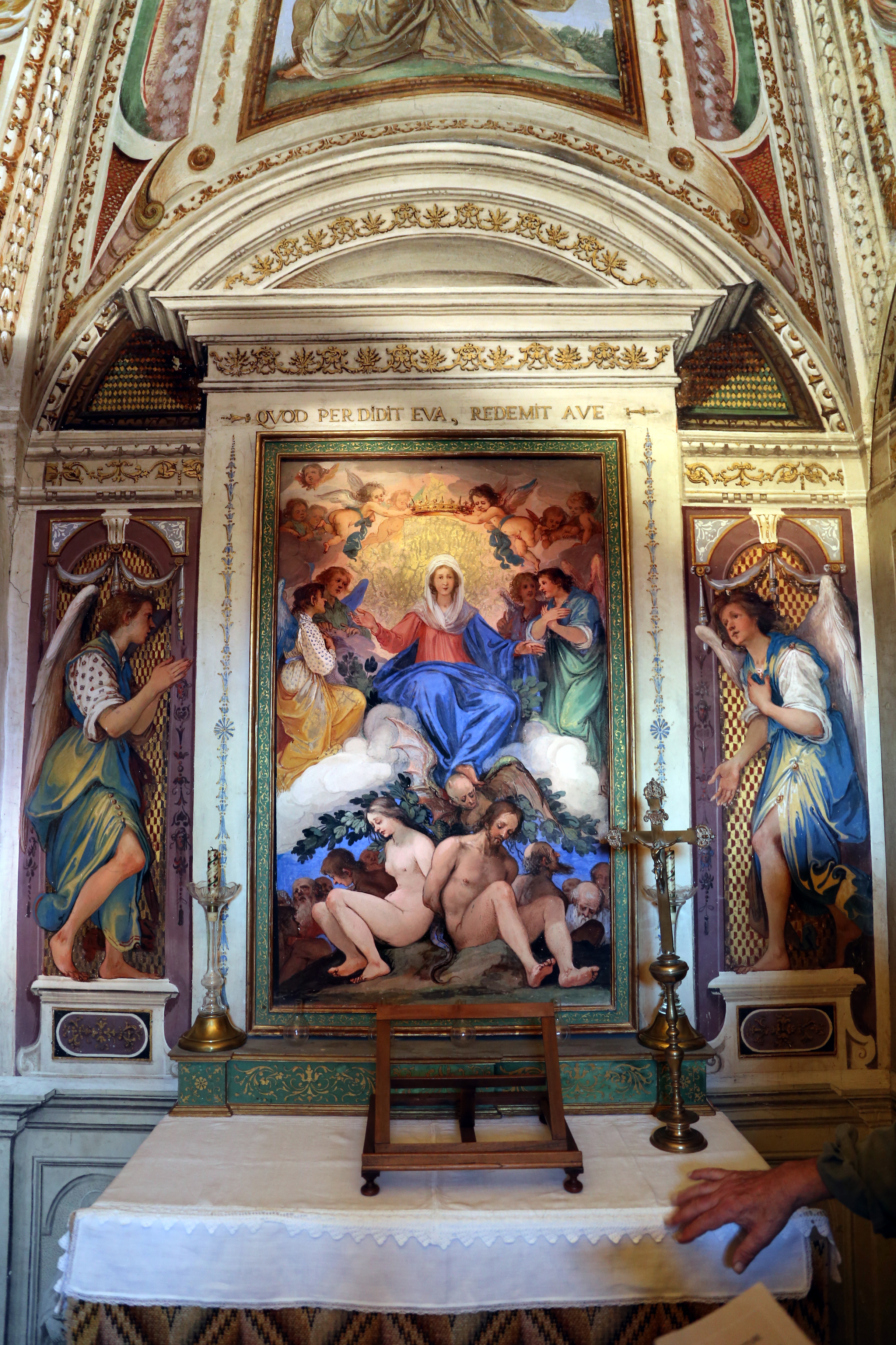 Villa Guicciardini-Majnoni (Vico d'Elsa) - Chapel